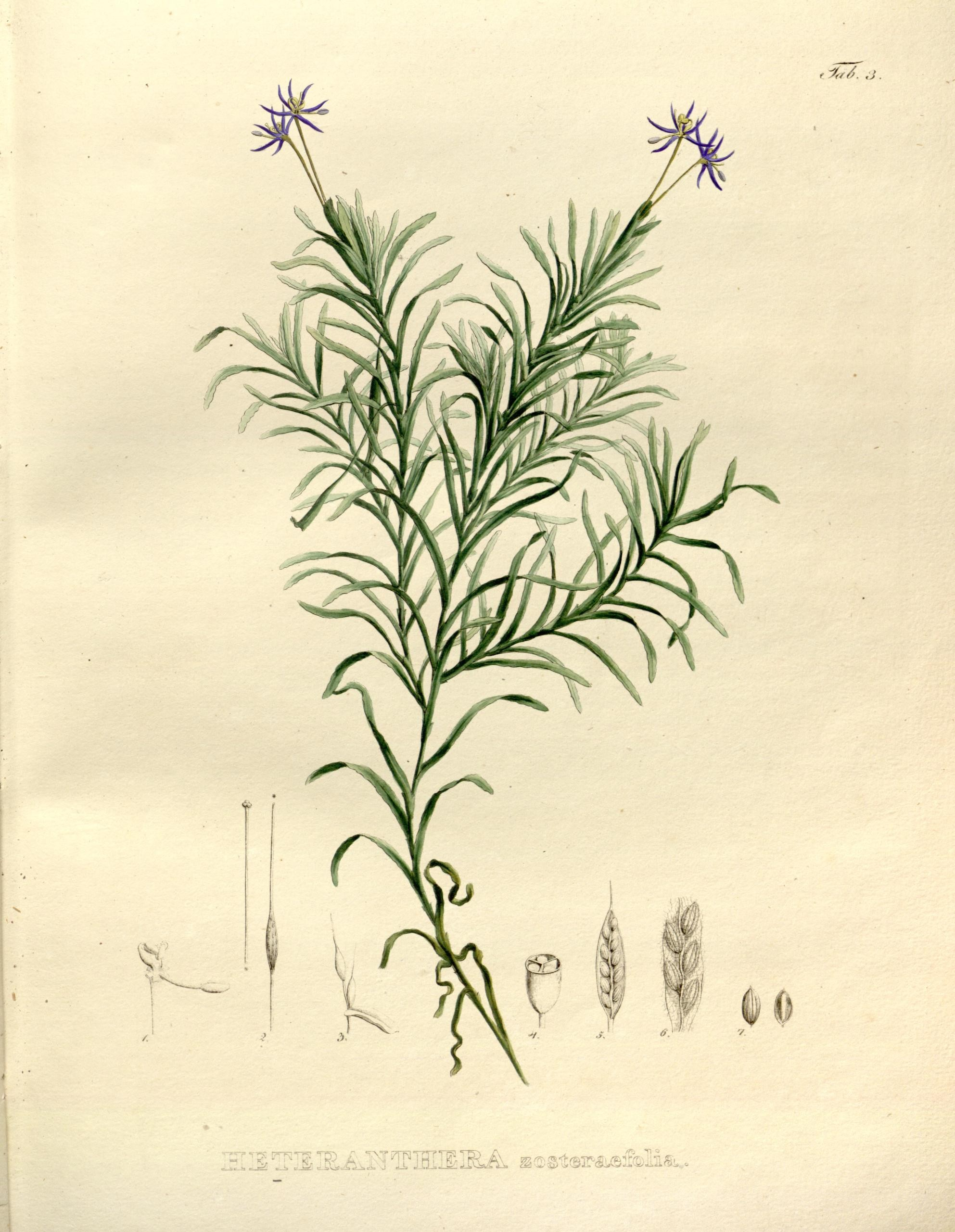 Heteranthera zosterifolia Nova genera et species plantarum. Monachii [Munich] :Impensis Auctoris,1824-1829 [i.e. 1824-32]..